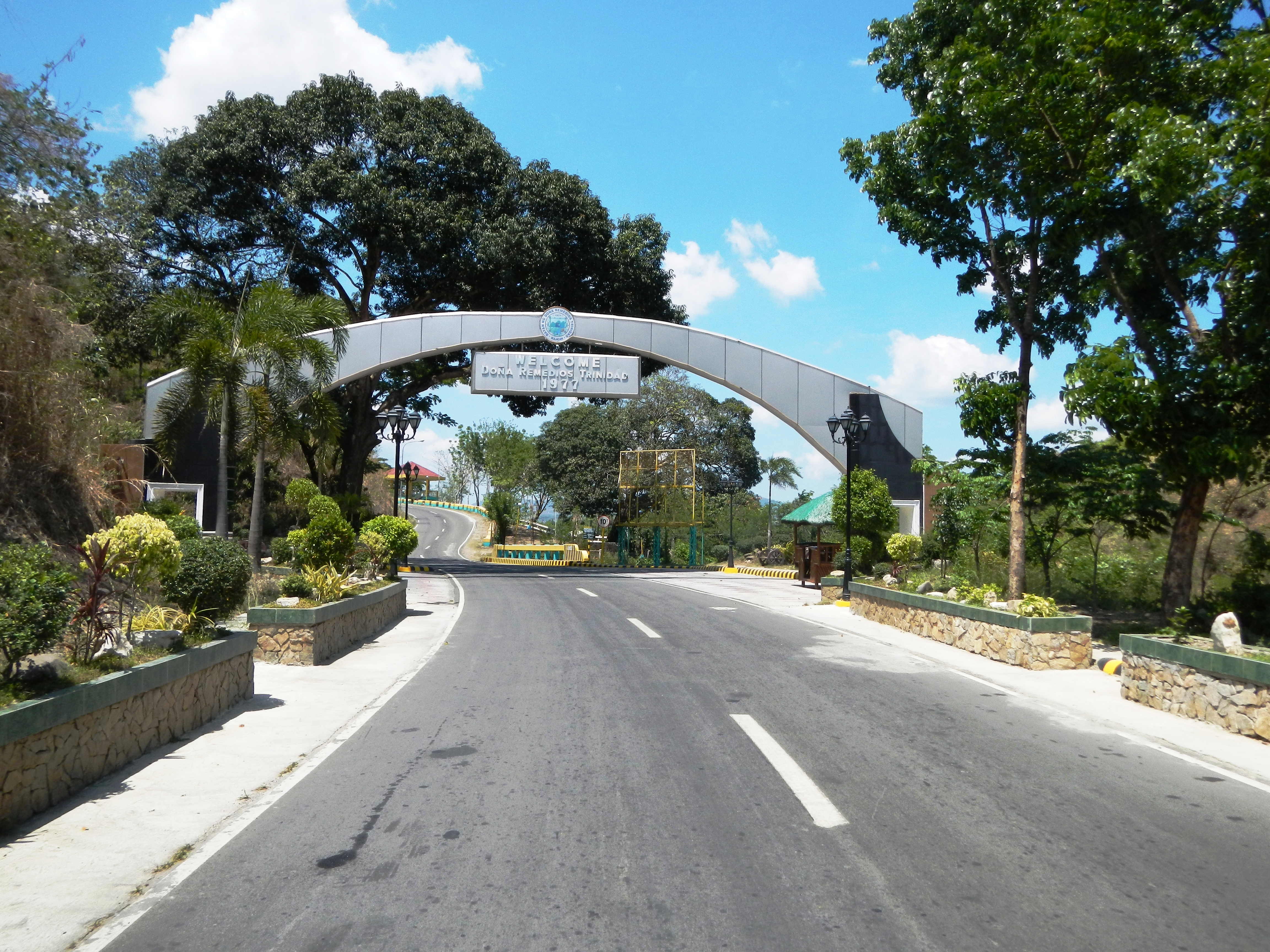 National Road corner Galilee street, Barangay Pulong-Sampaloc, Town Proper, Doña Remedios Trinidad, Bulacan, along the Angat-DRT-Baliuag Provincial and National Road: Doña Remedios Trinidad High and Elementary School, Birthing Clinic, Pulong-Sampaloc Bridge 1, K0072+063 10 Tons and KM 71+840 10 Tons, View Pont Deck, opening to the 1977 Doña Remedios Trinidad Welcome arch (from Angat, Bulacan) gateway to Angat, Bulacan Town Proper frona and along the Provincial Road.